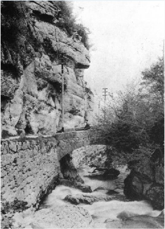 A mountain road go on a bridge to jump over a torrent.